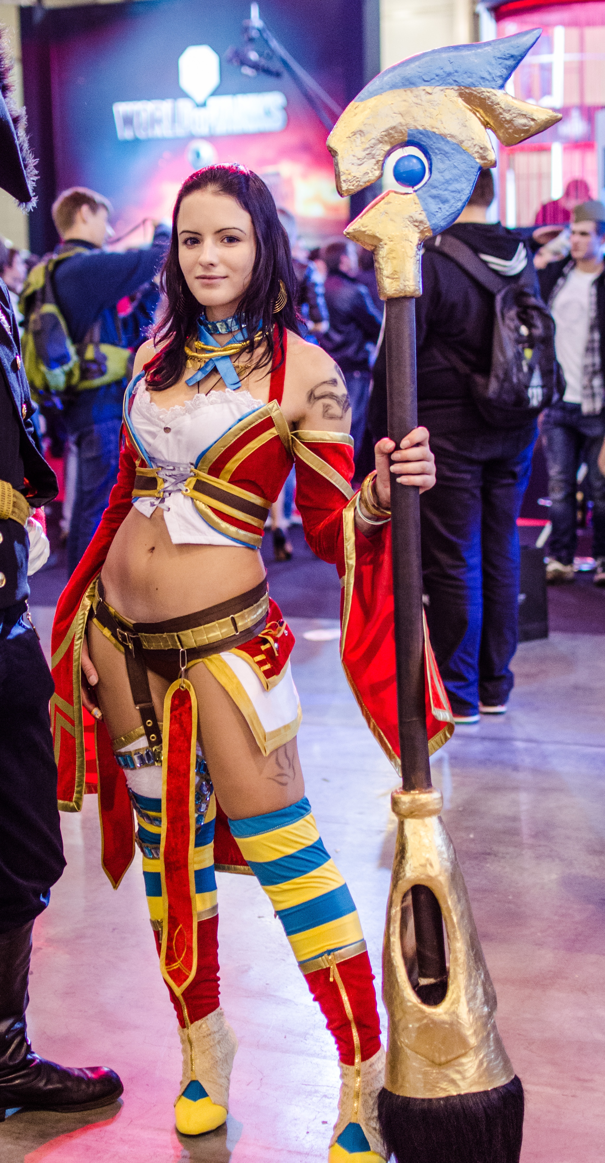 Artiste from Prime World at IgroMir 2012